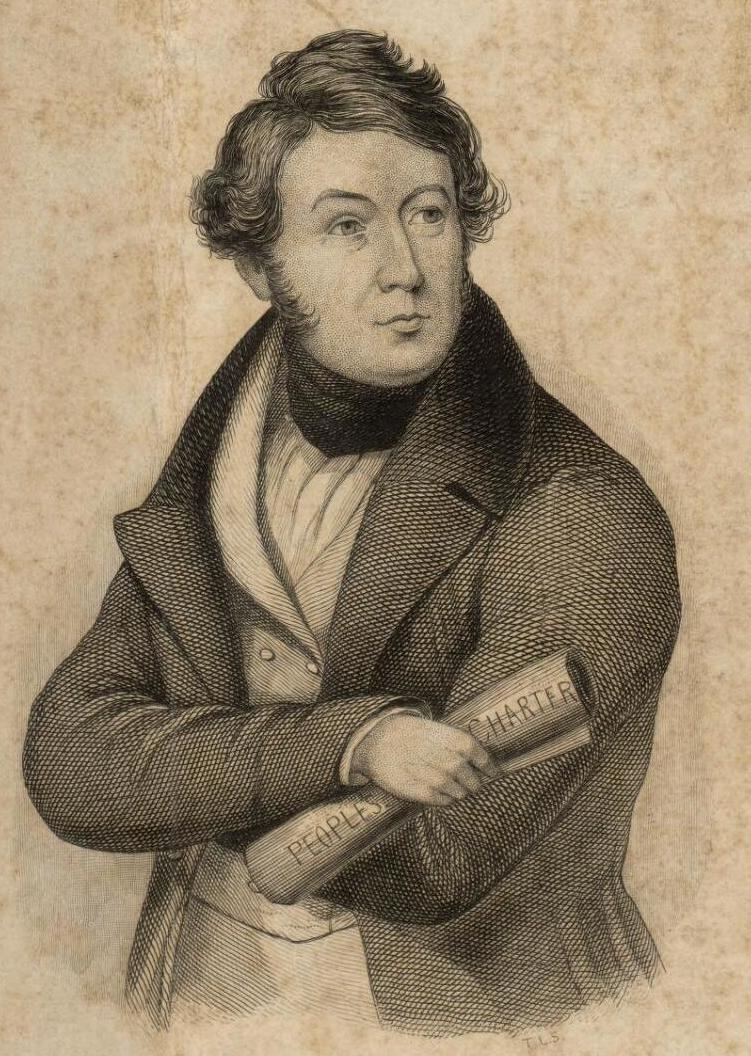 A portrait from the Welsh Portrait Collection at the National Library of Wales. Depicted person: John Frost – British Chartist